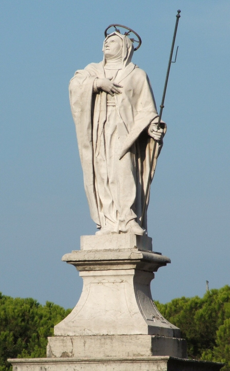 Desenzano (BS) Italy - statue of saint Angela Merici